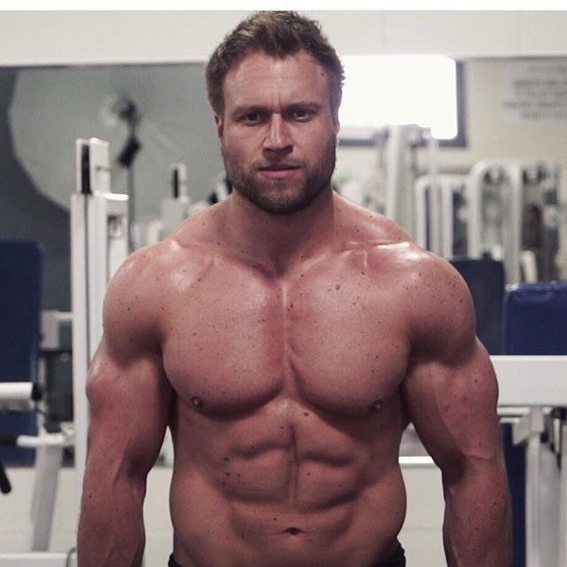 Peter Czerwinsky